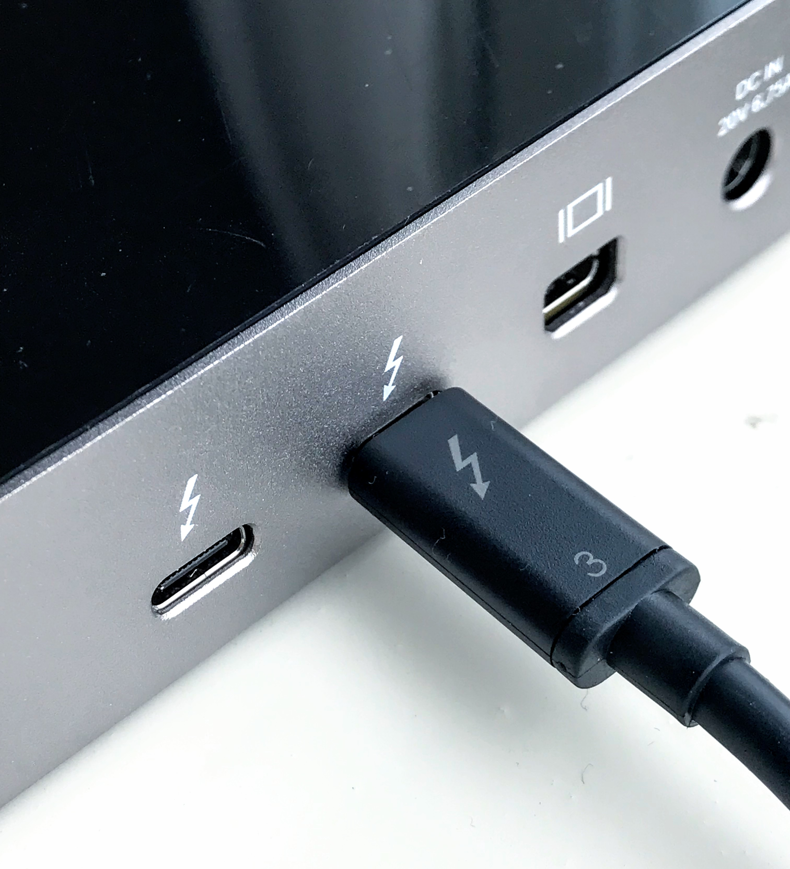 Thunderbolt 3 Cable connected to OWC Thunderbolt 3 Dock